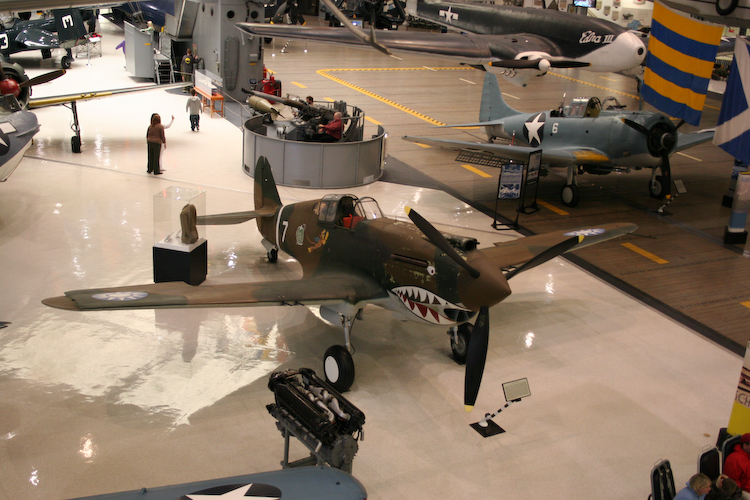 This P-40B Tomahawk began life in the RAF and was later transferred to the Soviet Union. This picture was taken at the National Museum of Naval Aviation.